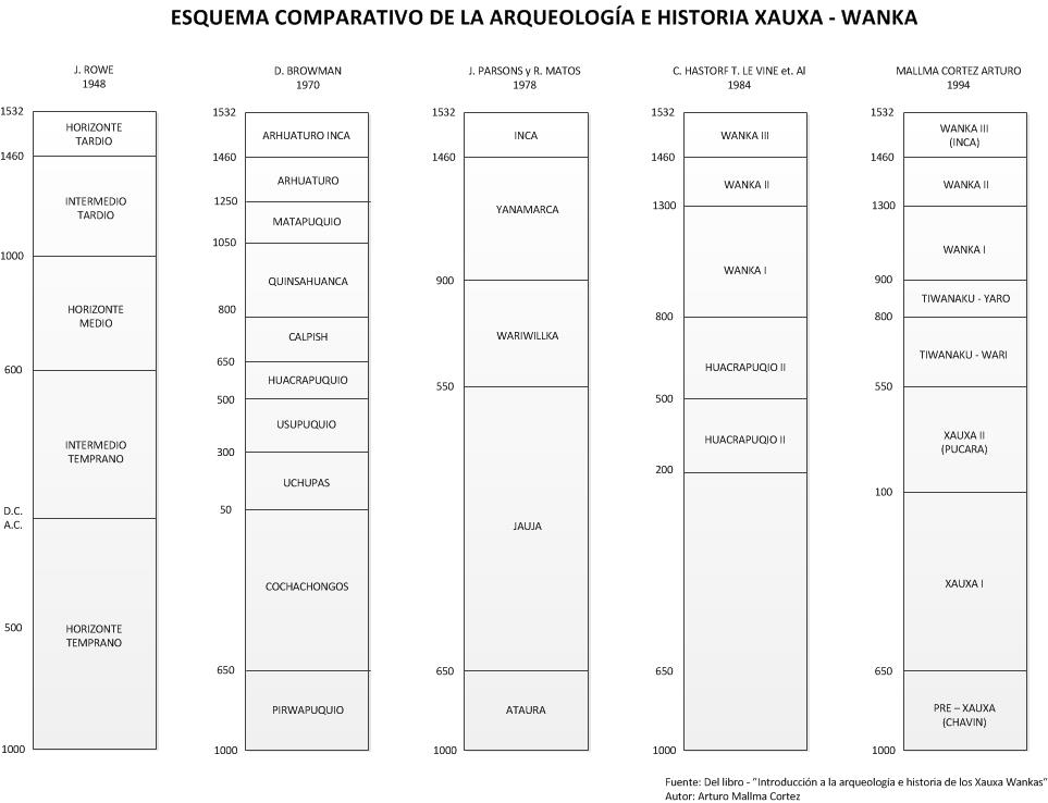 Chronology of Wanka Culture